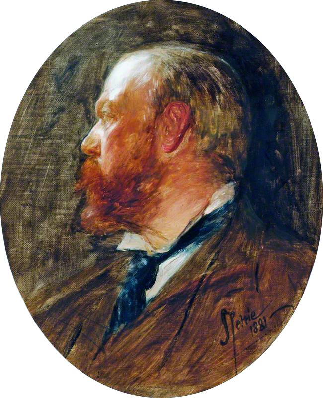 Self portrait oil on canvas 34.5 x 29.7 cm signed b.r.: JPettie / 1881